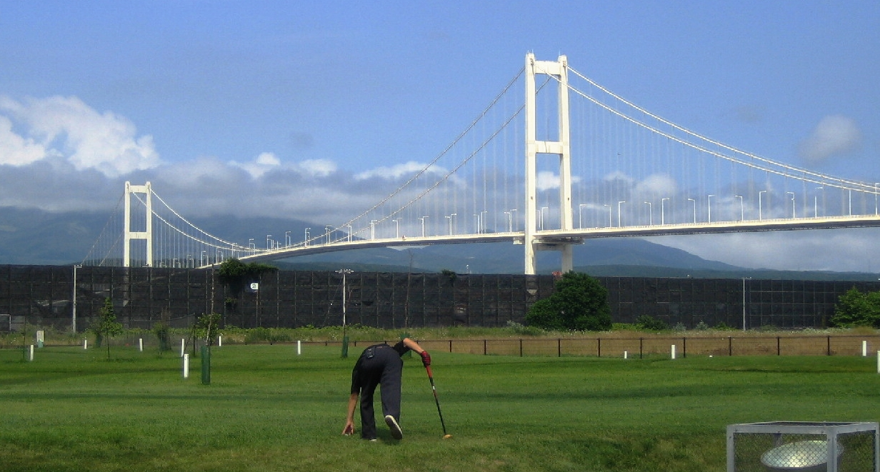 The Hakucho bridge. This version has been cropped and exposure adjusted. Modifications by User:SamuelWantman